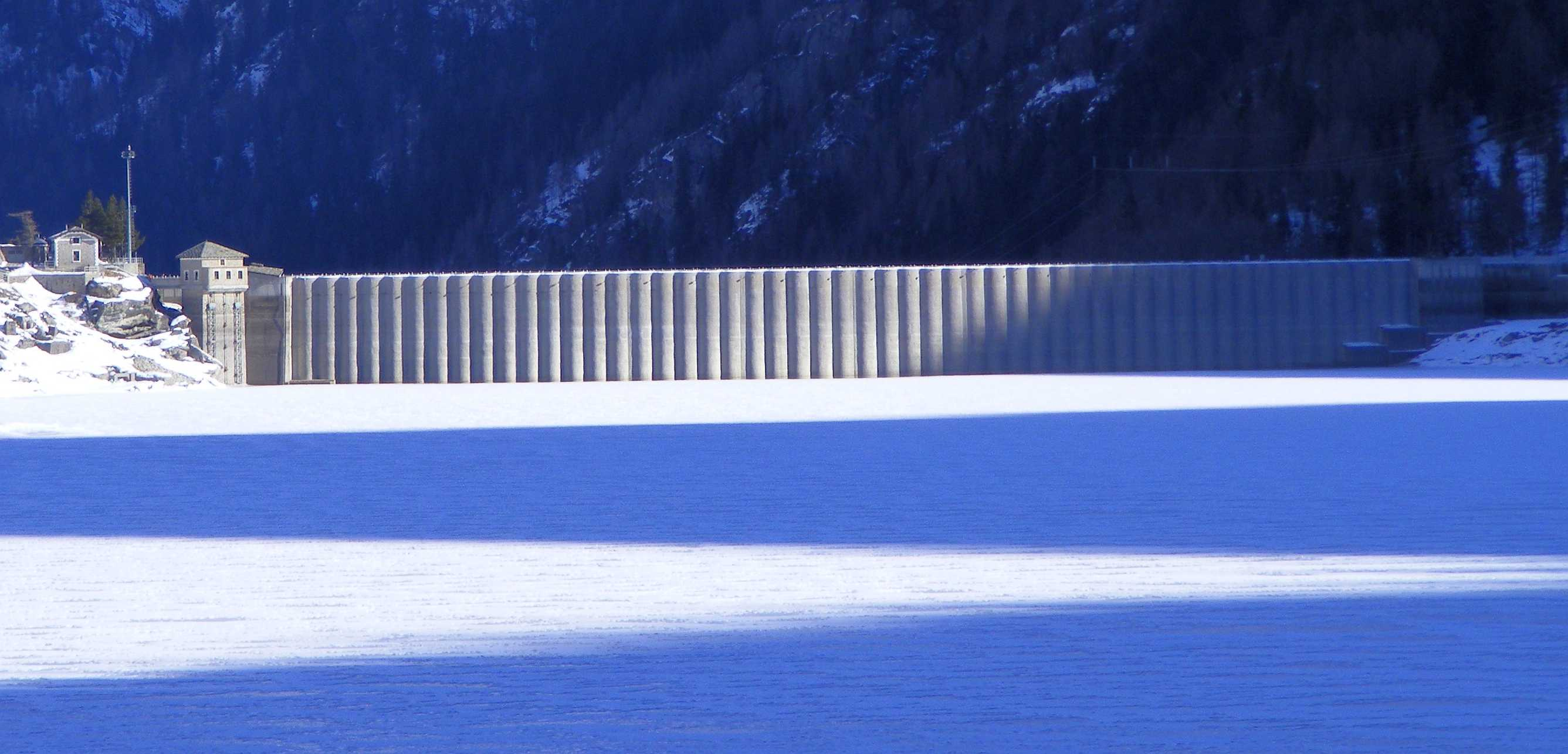 Ceresole Reale's dam (TO, Italy)